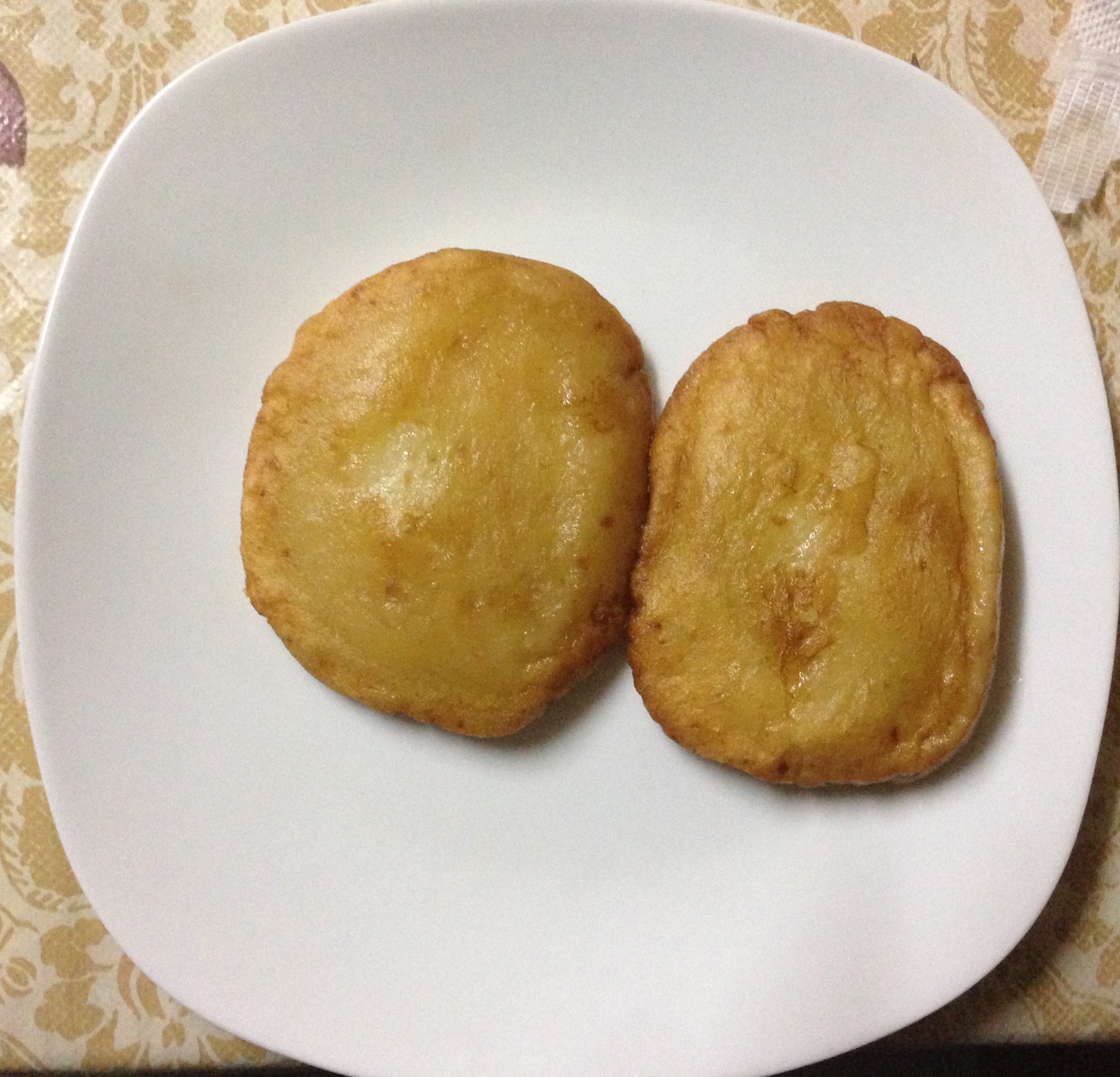 Milcaos de chuño